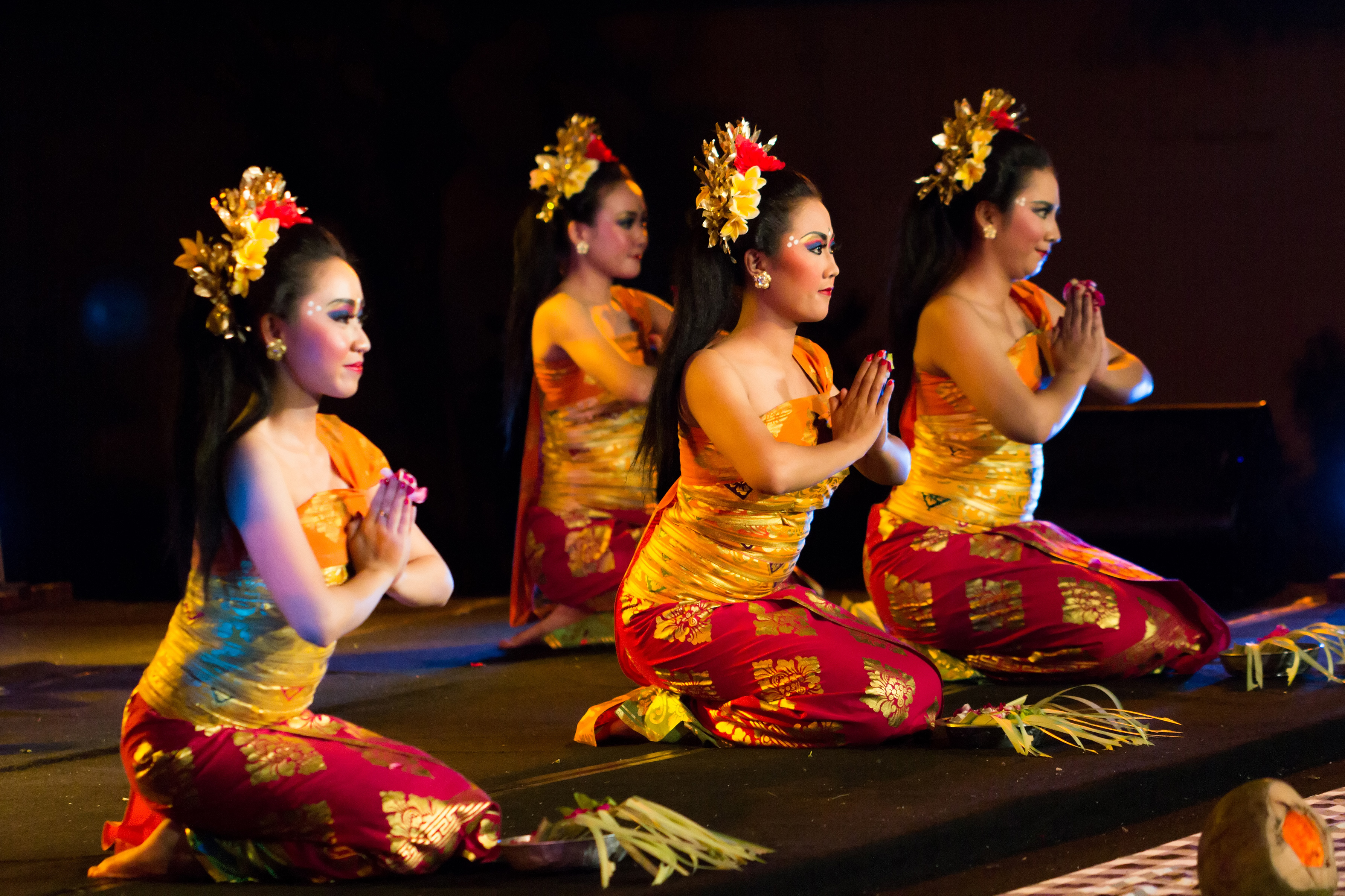 Sanata Dharma University's Sekar Jepun, a Balinese dance troupe, celebrates its 17th anniversary. Here the pendet dance is performed.